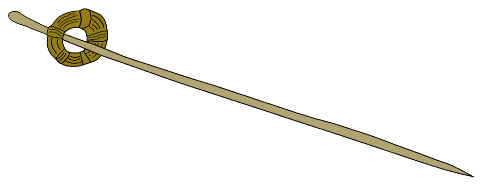 Hoop and pole